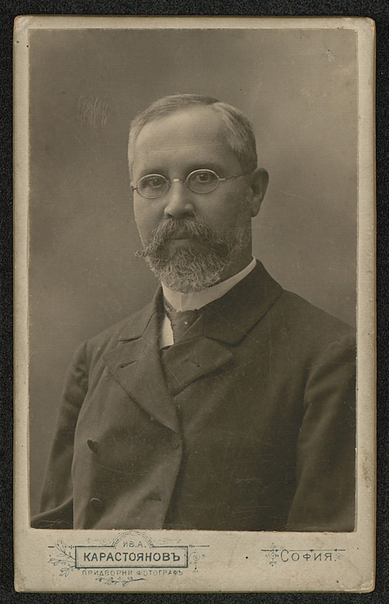 Alexandar Balan